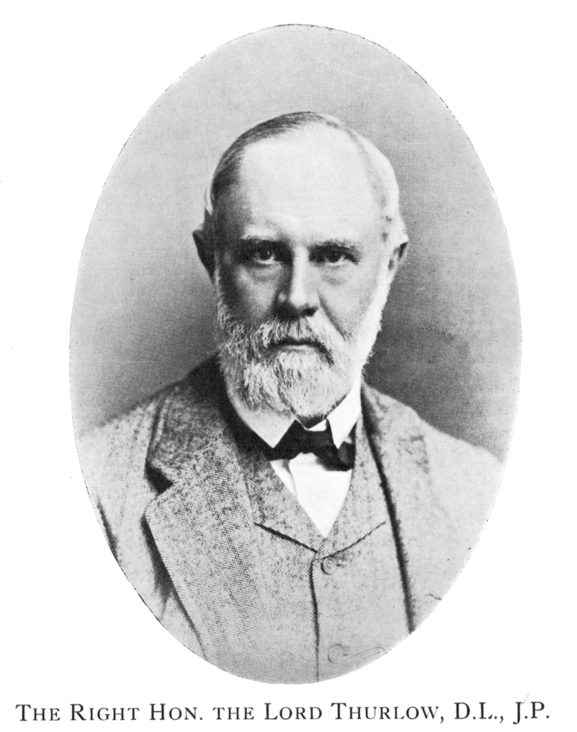 Full-face photographic portrait of Thomas John Hovell-Thurlow-Cumming-Bruce, 5th Baron Thurlow (1838-1916) captioned THE RIGHT HON. THE LORD THURLOW, D.L., J.P. [Deputy Lieutenant, Justice of the Peace] from the book entitled Suffolk Leaders: Social and Political, by Charles Albert Manning PRESS (1869-1943) published (for subscribers only) in May 1906 by the Hornsey & Tottenham Press Ltd.